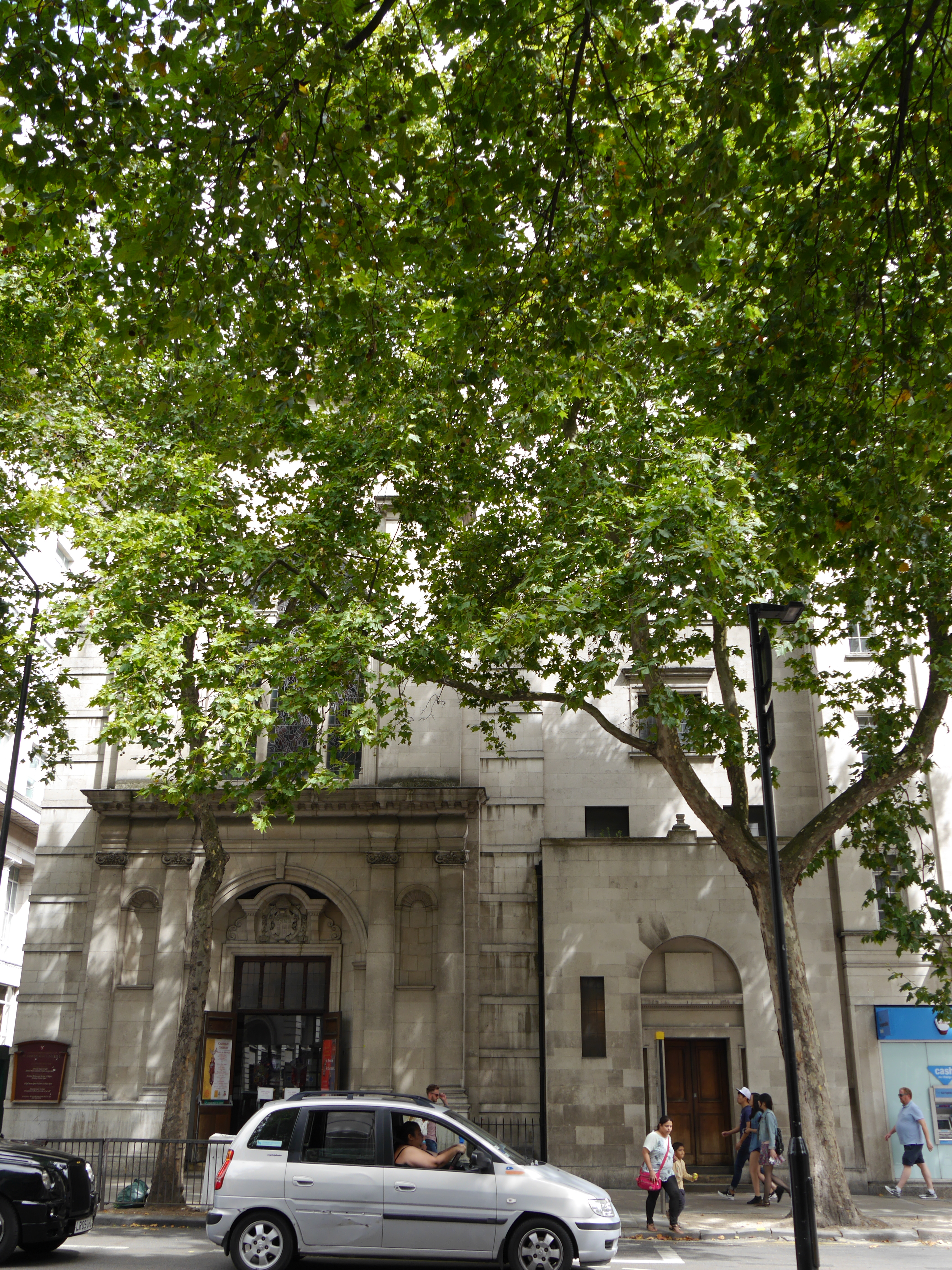 Church of St Anselm and St Cecilia, Kingsway, London, August 2015